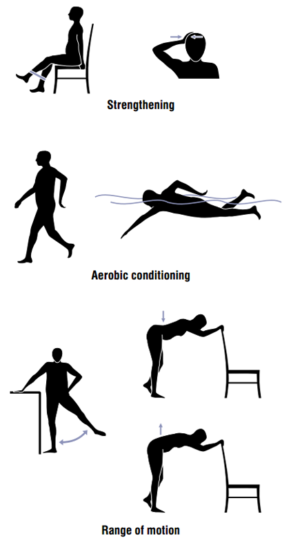 People with osteoarthritis should do different kinds of exercise for different benefits to the body.